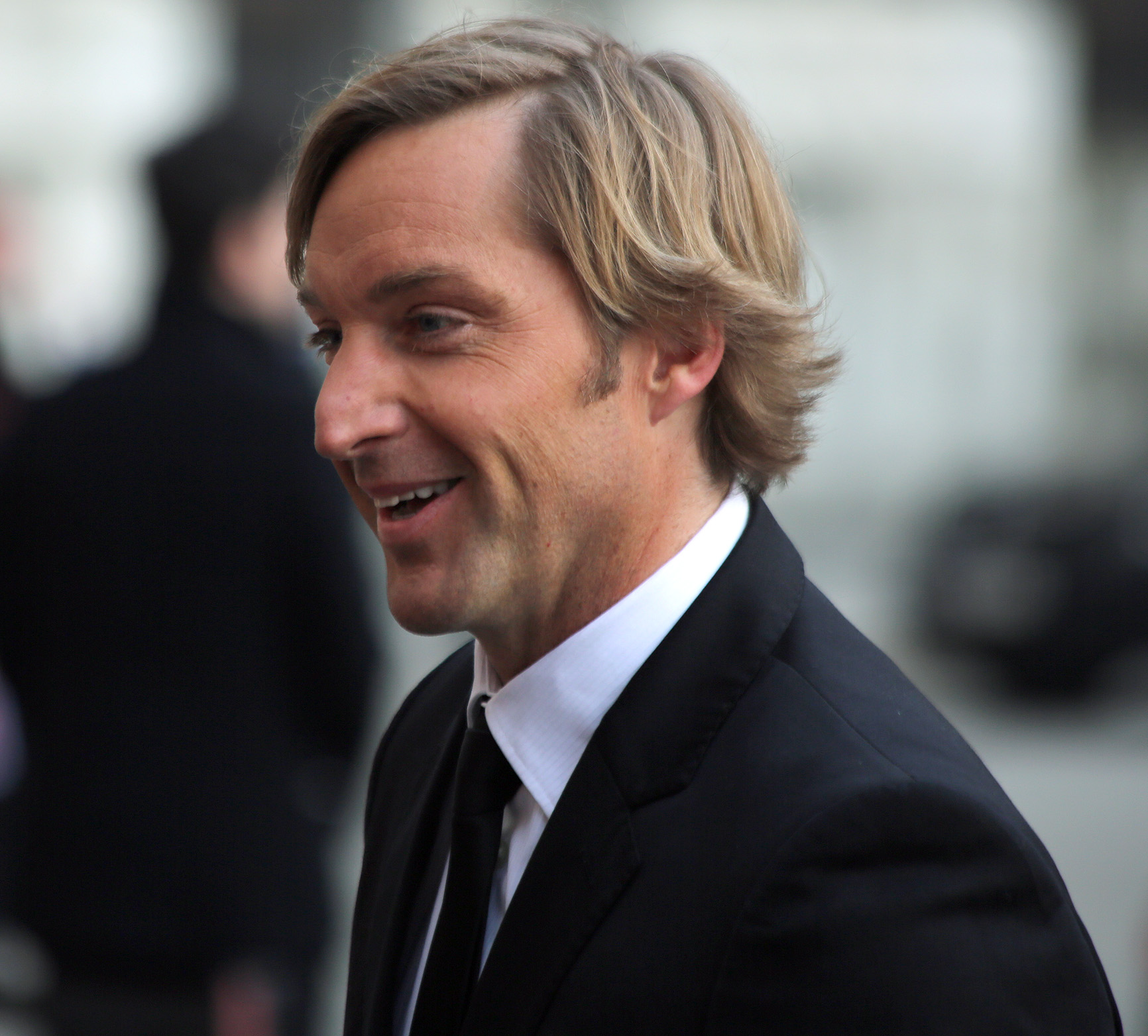 Hans Knauß at the Romy film awards (Hofburg Imperial Palace in Vienna)